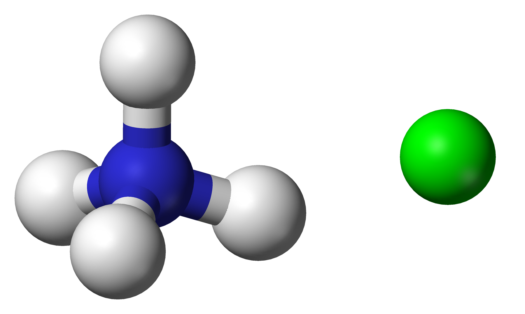 Ball-and-stick model of ammonium chloride, showing an ammonium cation (left) and a chloride anion (right).